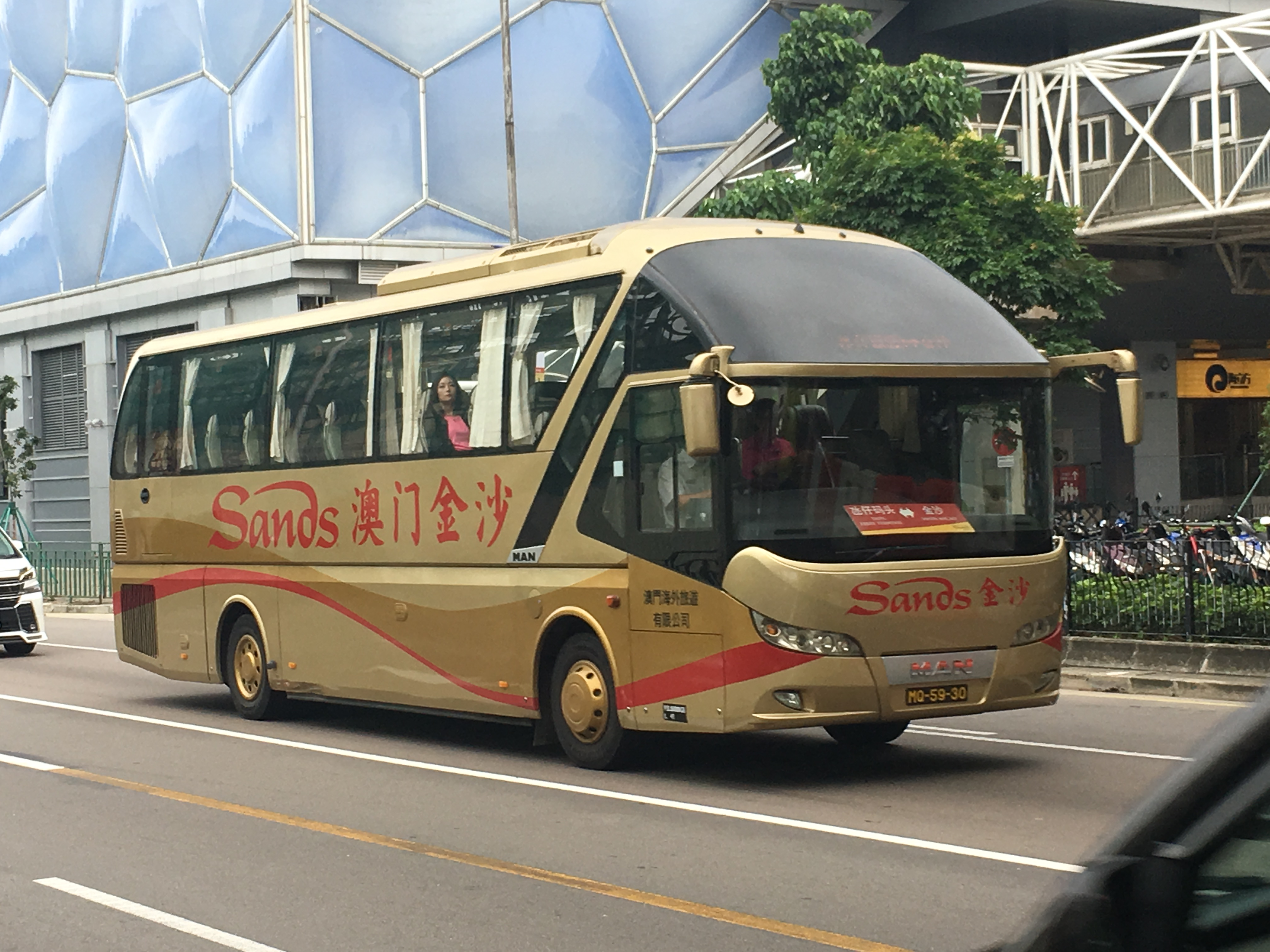 中文（香港）: This photo is taken in Outer Harbour.